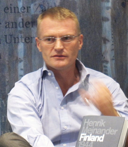 Finish historian Henrik Meinander at Gothenburg Book Fair 2009.